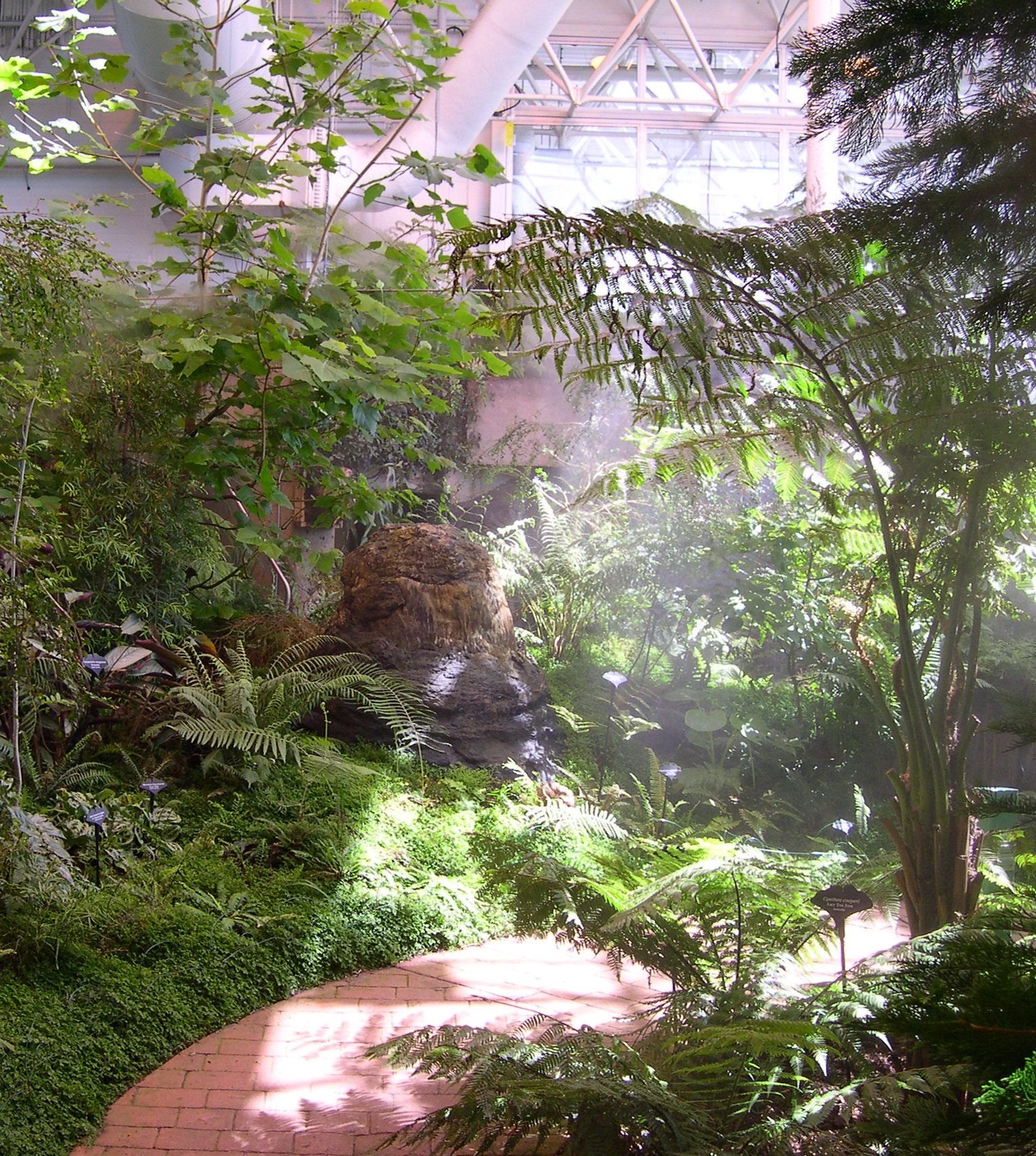 lots of fernsJune 16 - 27, 2003